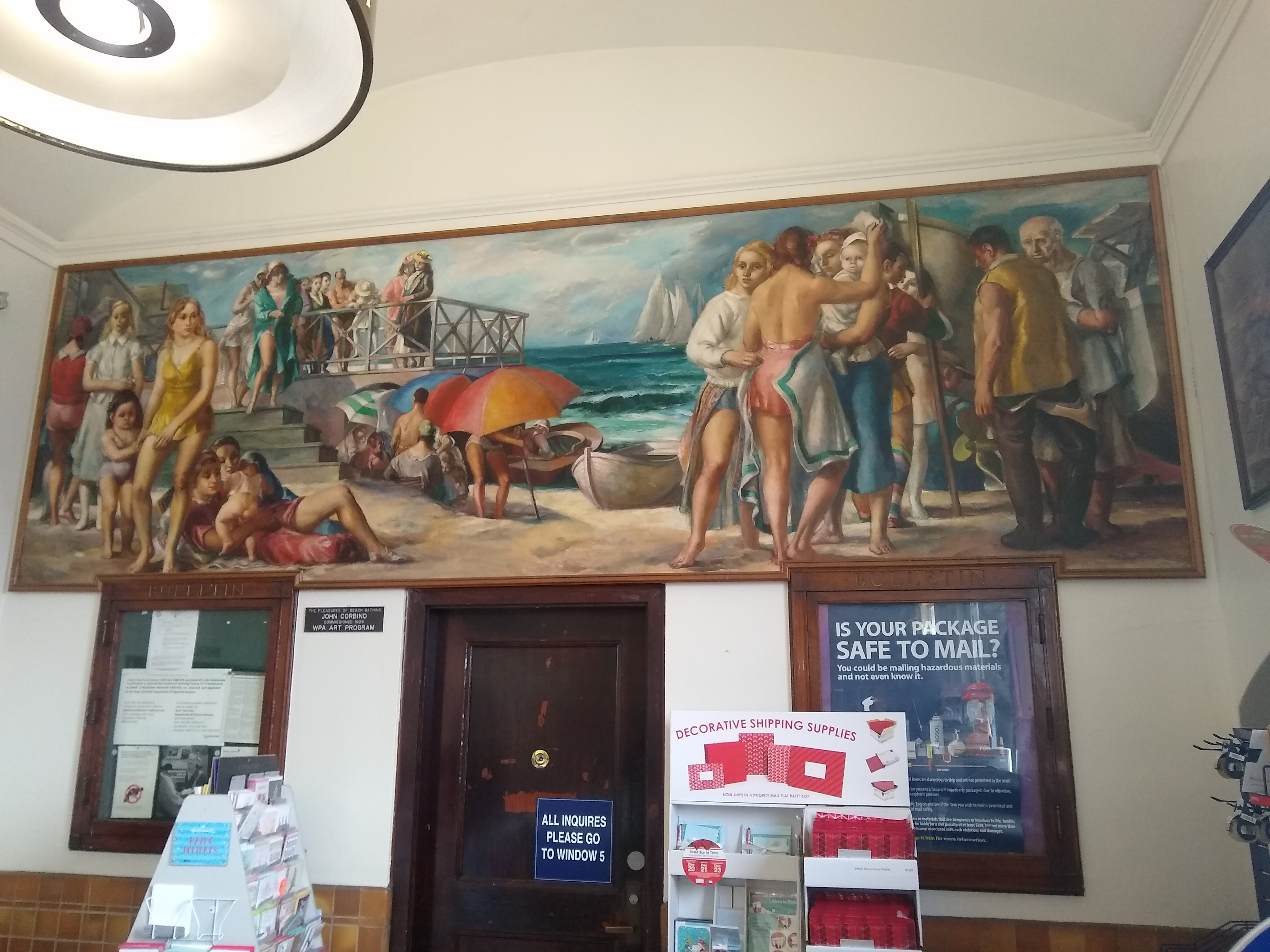 The lobby features a mural by Jon Corbino installed in 1939 and titled "The Pleasures of Bathing", painted as part of the WPA New Deal art project.